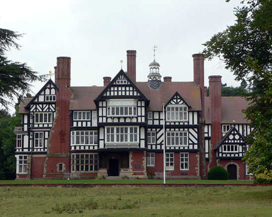 Bedstone college Bedstone Court part of the college, one of the few calendar houses in Britain.